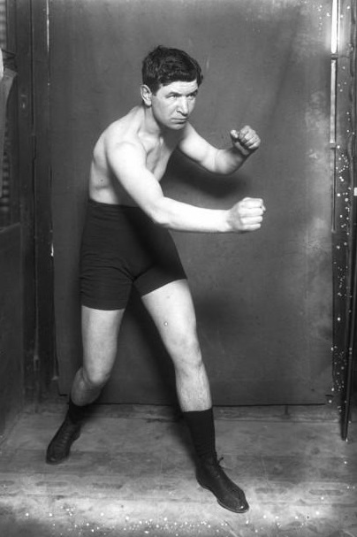 Striking a pose